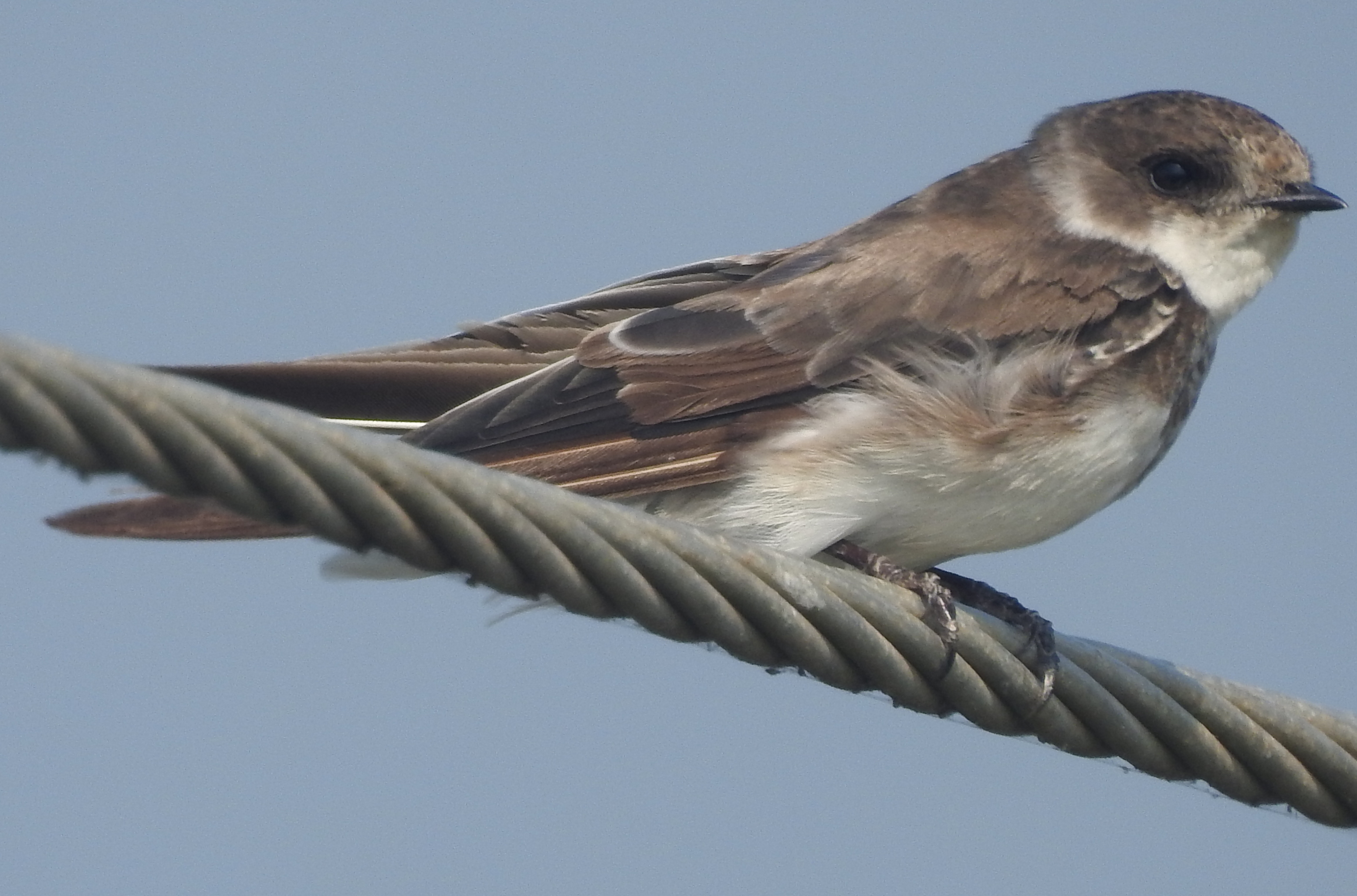 Sand martin or Bank swallow from Kole Wetlands, Thrissur